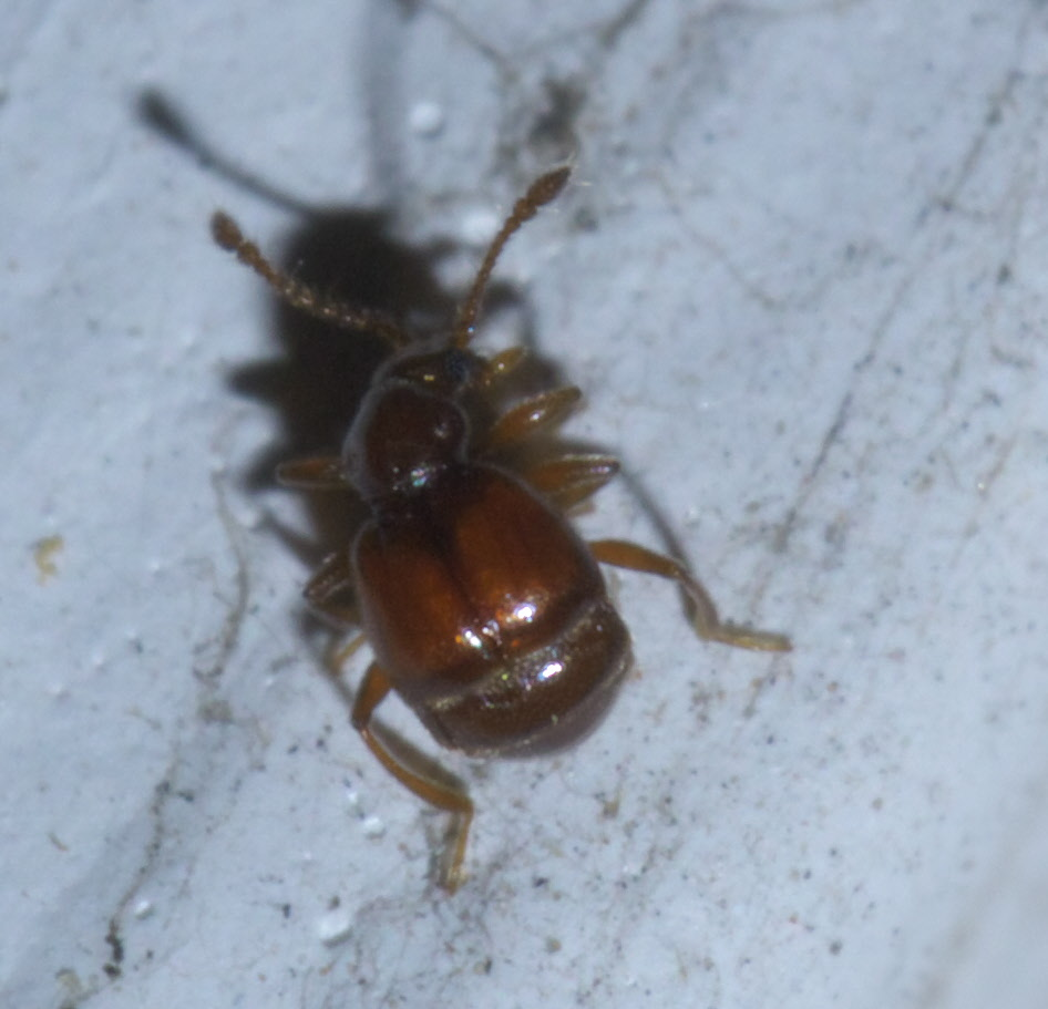 Reichenbachia, Subfamily: Ant-loving Beetles, Size: around 2 mm, ID Confidence: 98